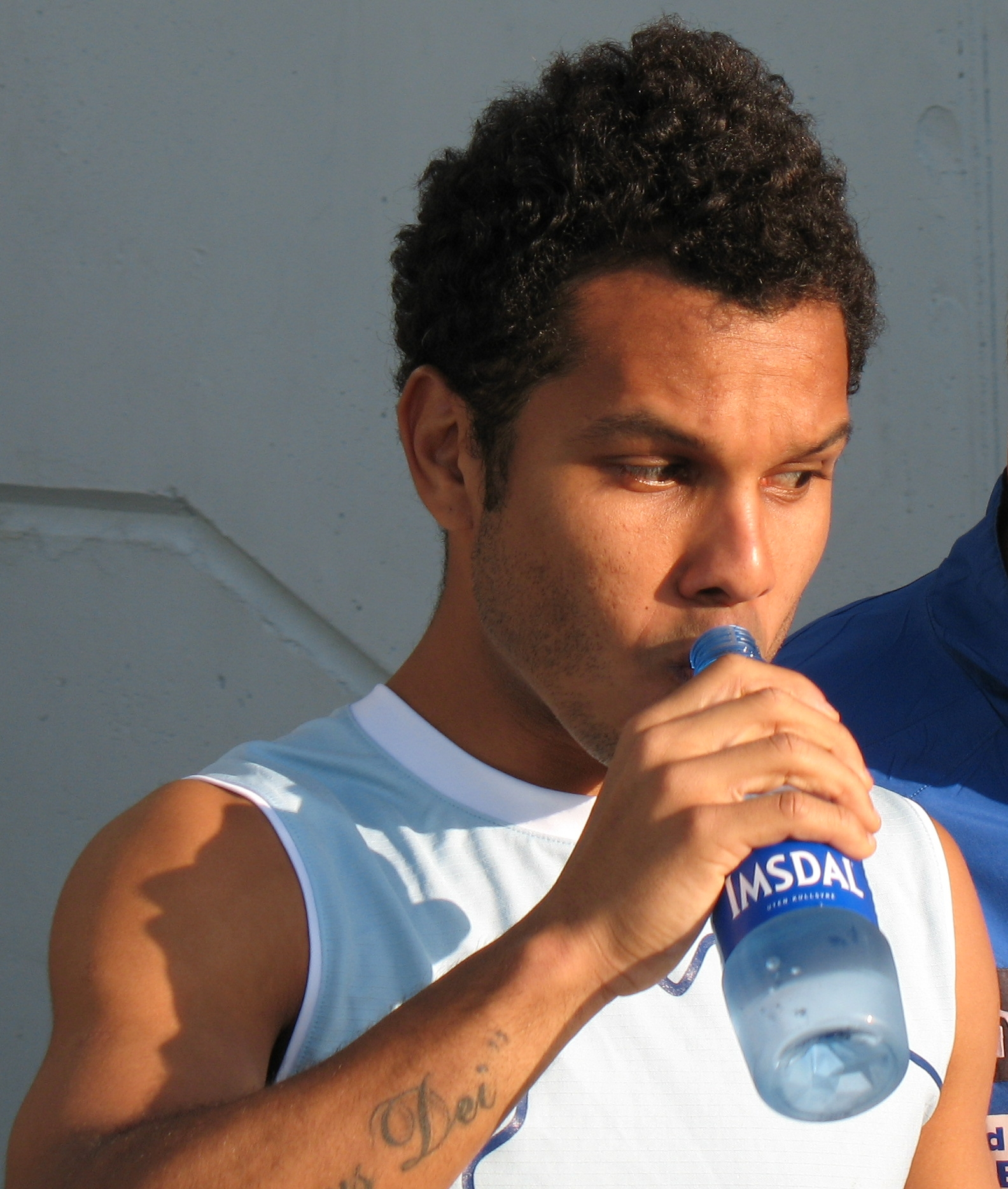 Brazilian footballer Alan Carlos Gomes da Costa (“Alanzinho“).